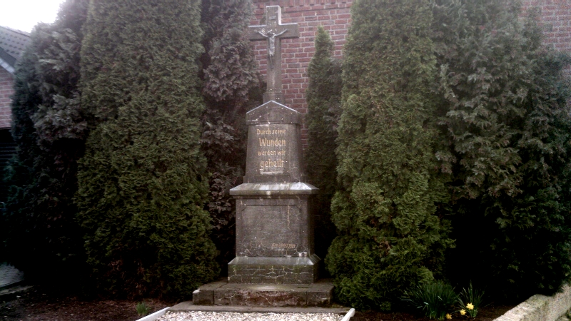 Calvary (Cross) in Ompert, Viersen, Germany.